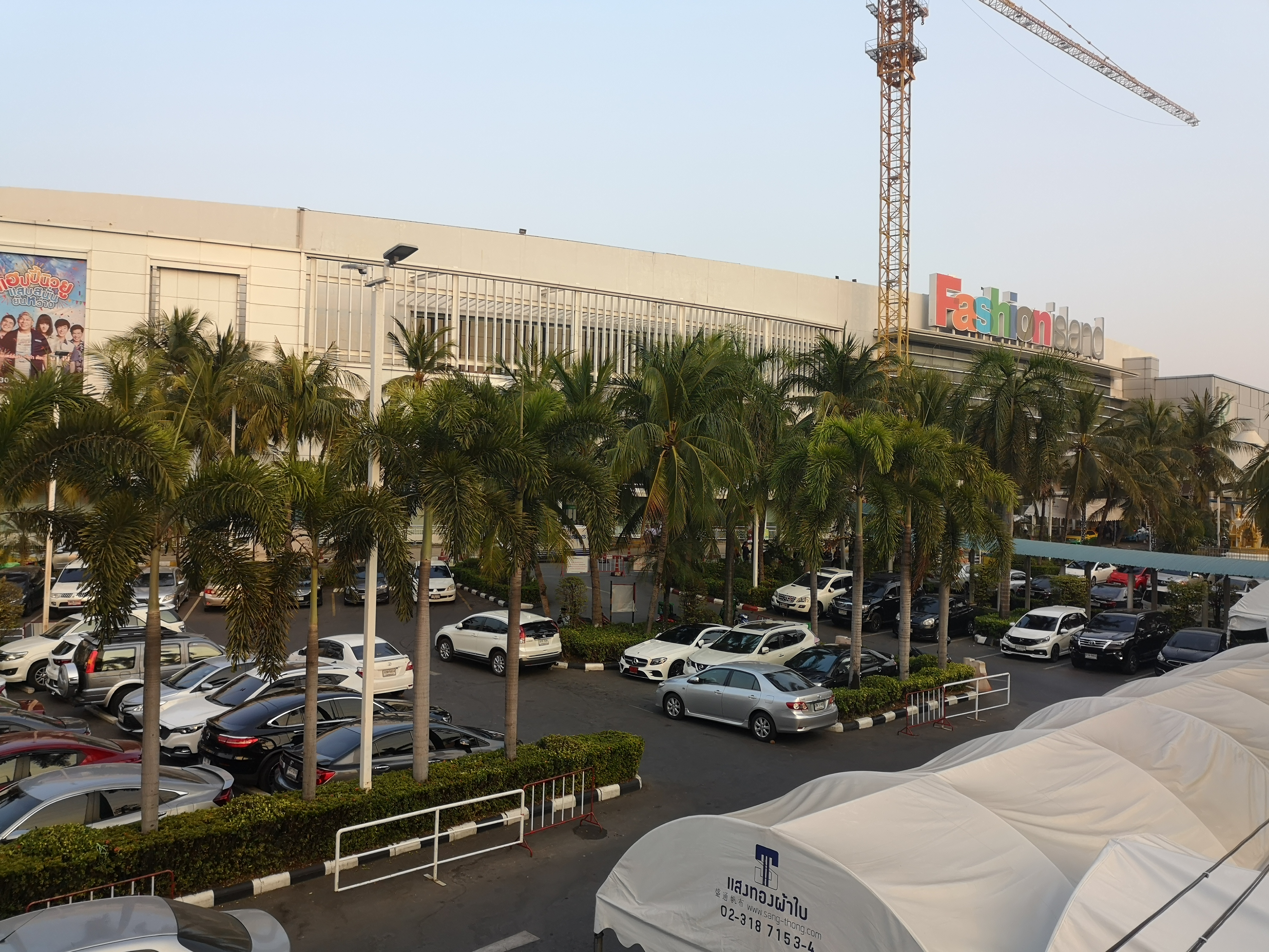 Fashion Island on Thanon Rarm Intra.